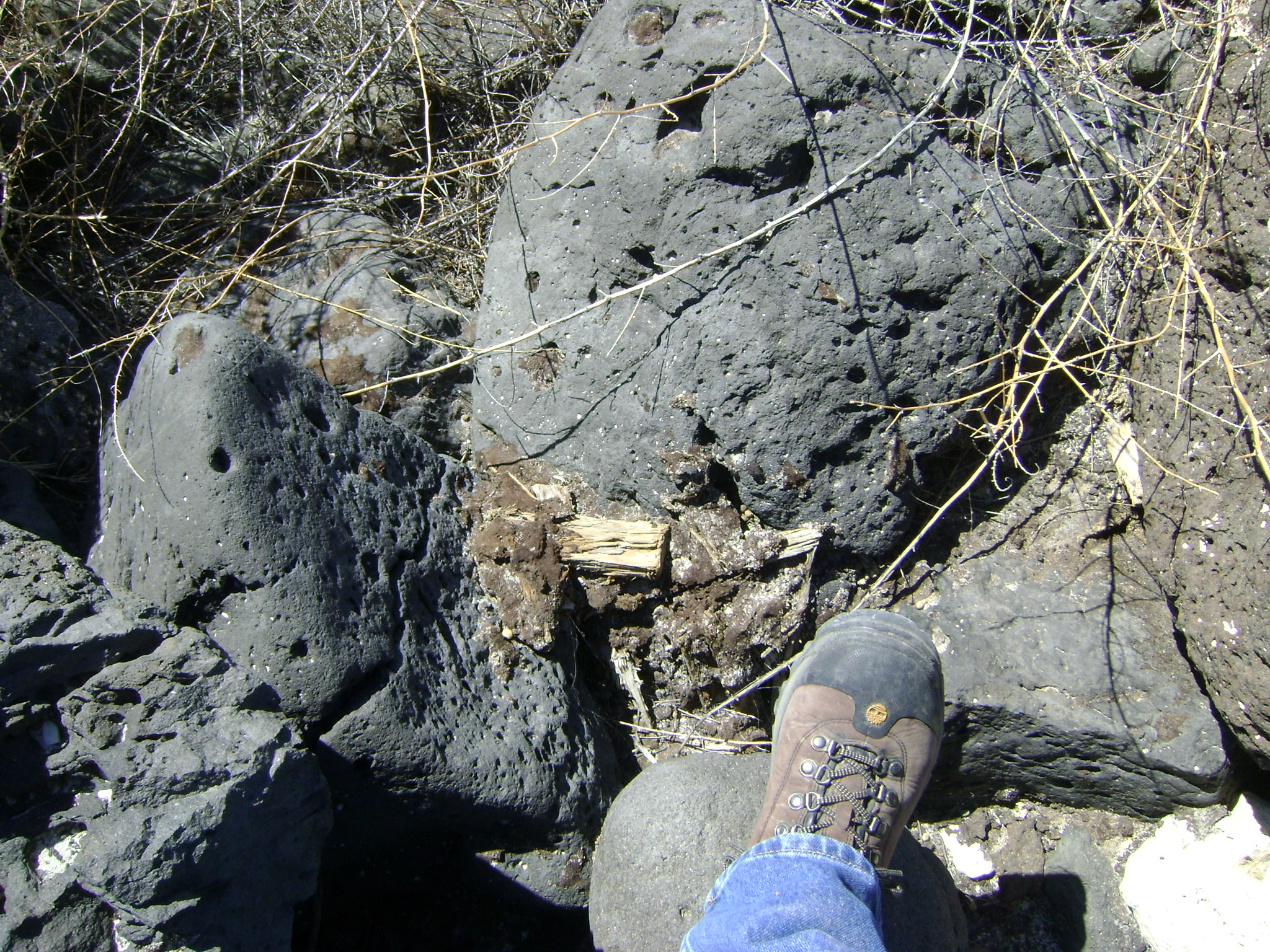 Re-worked tar on the beach at Rozel Point, Utah. Black rocks are basalt - the stuff that looks like cow manure with a stick in it is the tar.